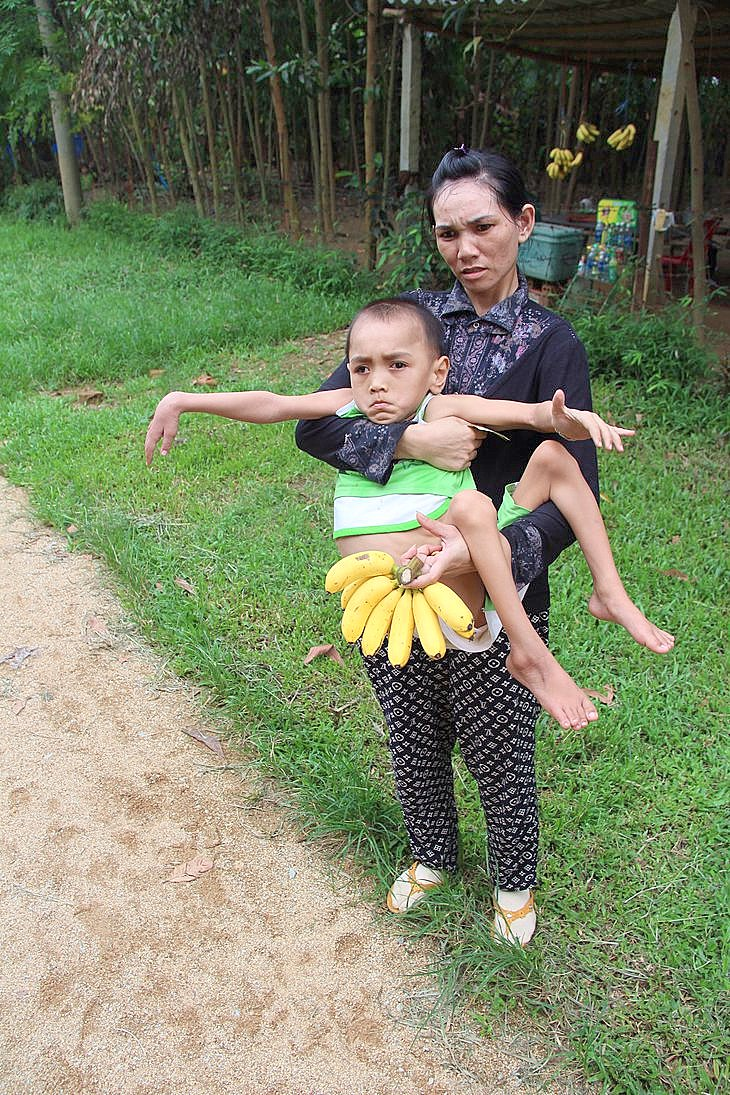 Begging woman with disabled child Vietnam